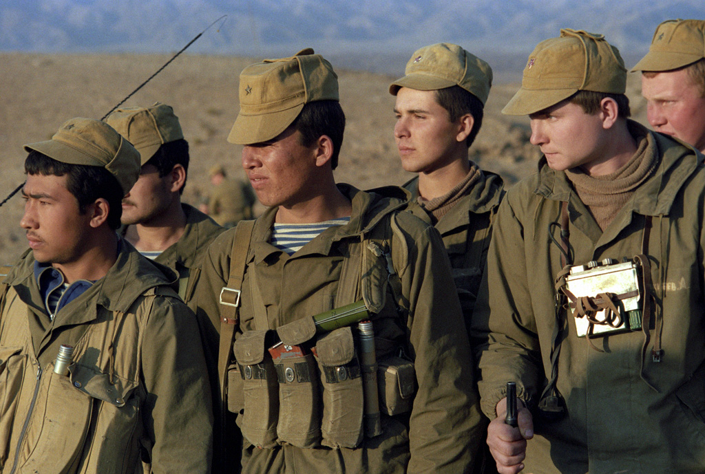 “Group of special forces after a combat mission”. Limited contingent of Soviet troops in Afghanistan. Group of special forces after a combat mission near the village of Tokhram.